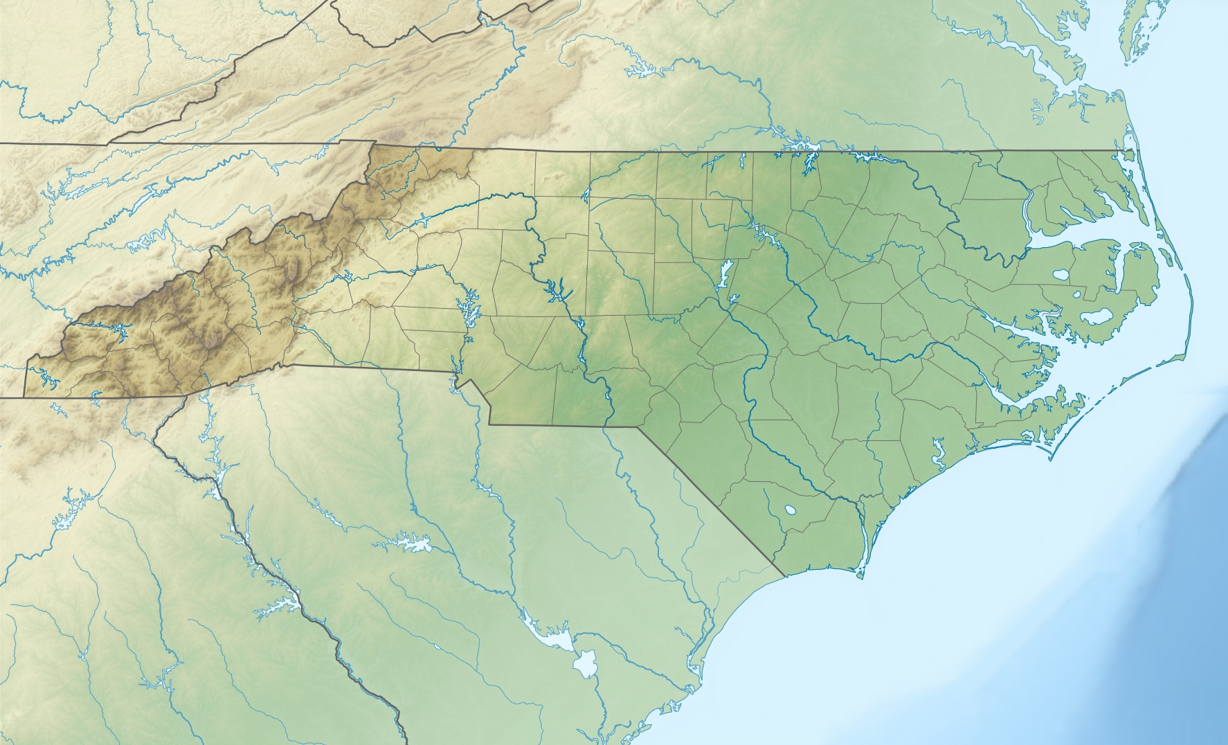 Physical Location map of North Carolina, USA Equirectangular projection, N/S stretching 120.0 %. Geographic limits of the map: N: 37.5° N S: 32.8° N W: 84.5° W E: 75.2° W